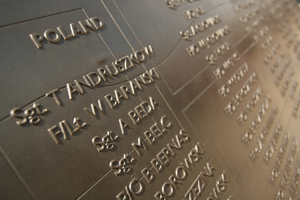 Battle of Britain Monument, London